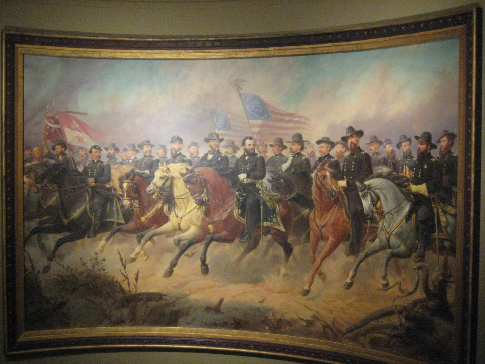 The following generals are depicted in this painting: Thomas Casimer Devin George Armstrong Custer Hugh Judson Kilpatrick William Hemsley Emory Philip Henry Sheridan James Birdseye McPherson George Crook Wesley Merritt George Jenry Thomas Gouverneur Kemble Warren George Gordon Meade John Grubb Parke William Tecumseh Sherman John Alexander Logan Ulysses Simpson Grant Ambrose Everett Burnside Joseph Hooker Winfield Scott Hancock John Aaron Rawlins Edward Otho Cresap Ord Francis Preston Blair, Jr. Alfred Howe Terry Henry Warner Slocum Jefferson Columbus Davis Oliver Otis Howard John McAllister Shofield Joseph Anthony Mower